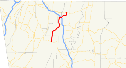 Map of Georgia State Route 201